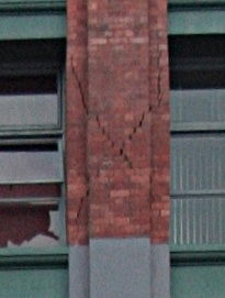 Detail of earthquake damage to Manchester Courts building. Original description of full image: "Manchester Courts, Christchurch. Look close and you will see as well as the broken windows, big cracks in the brickwork. I think this one might be condemned! Such a shame!"